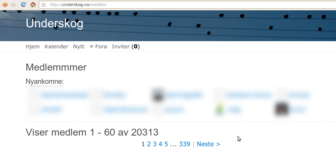 A screenshot from the Norwegian website Underskog